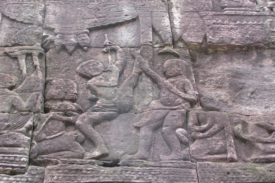 ancient khmer bas-relief of a "gup jarn" or a high round house kick.